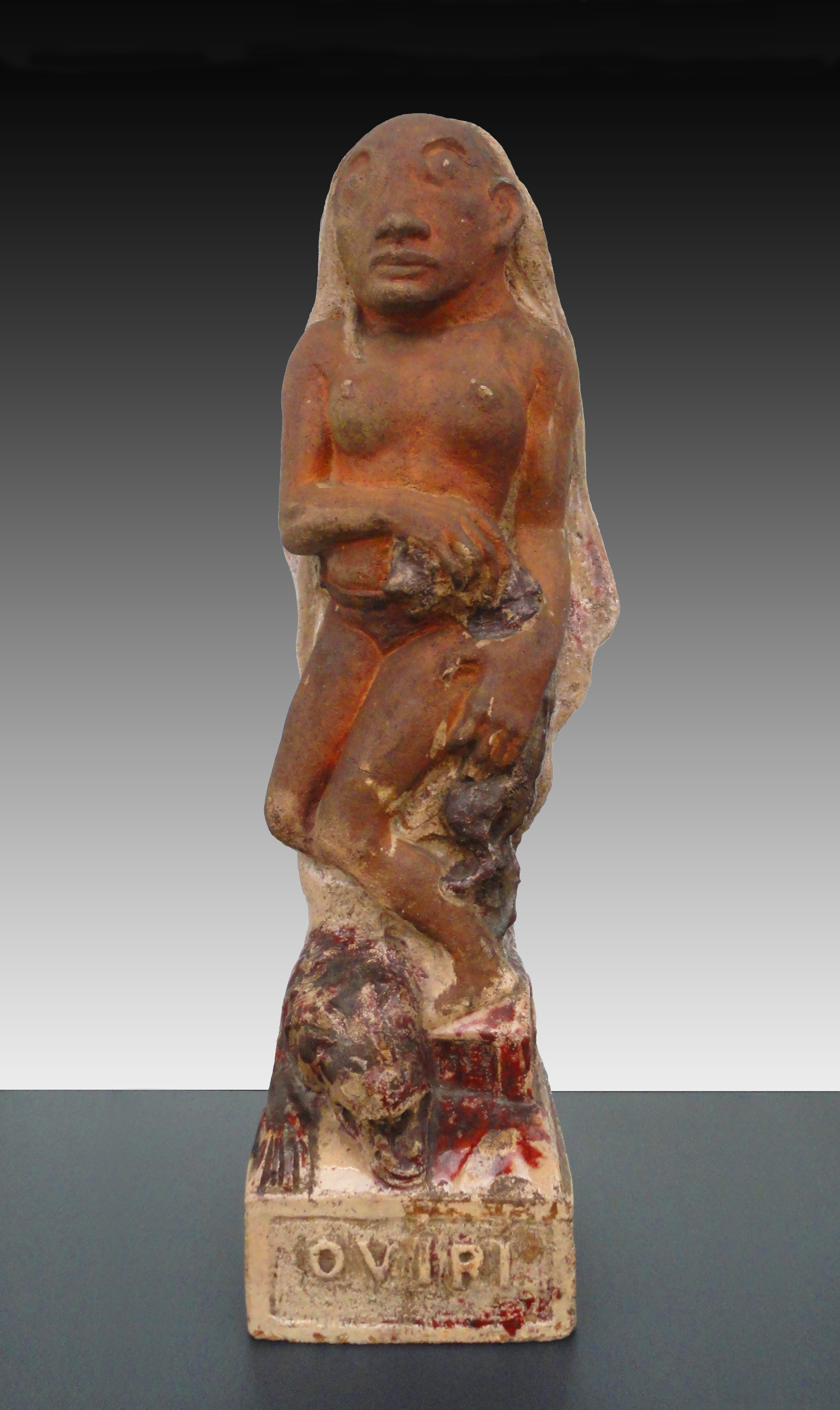 Paul Gauguin, 1894, Oviri (Sauvage), partially glazed stoneware (grès, céramique, terre cuite), 75 x 19 x 27 cm, Musée d'Orsay, Paris The theme of Oviri is death, savagery, wildness. Oviri stands over a dead she-wolf, while crushing the life out of her cub. As Gauguin wrote to Odilon Redon, it is a matter of "life in death". From the back, Oviri looks like Auguste Rodin's Balzac, a sort of menhir symbolizing the gush of creativity. Source